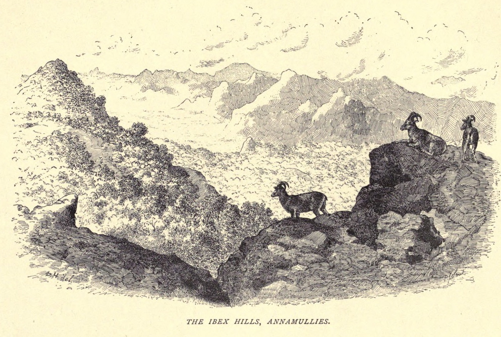 Douglas Hamilton, The Ibex Hills, Annamullies